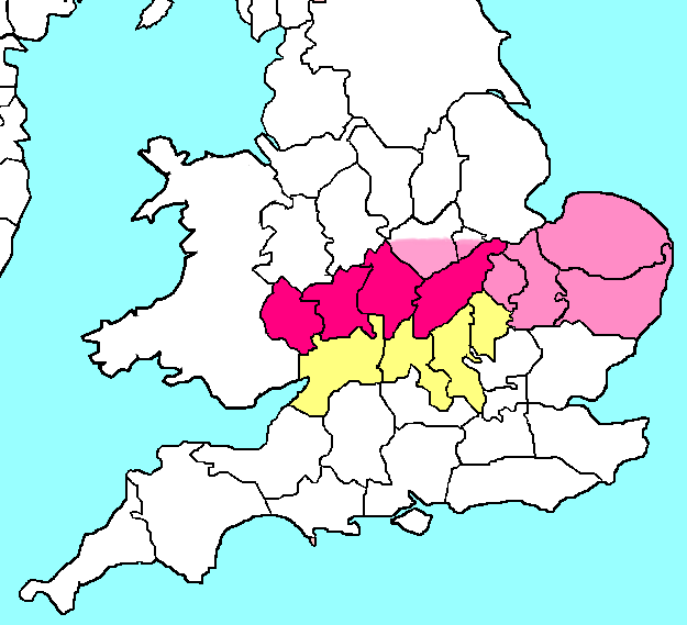 Map of counties in the South Midlands of England. Counties typically included are in pink, counties sometimes included are in light pink, and counties rarely included are in cream.